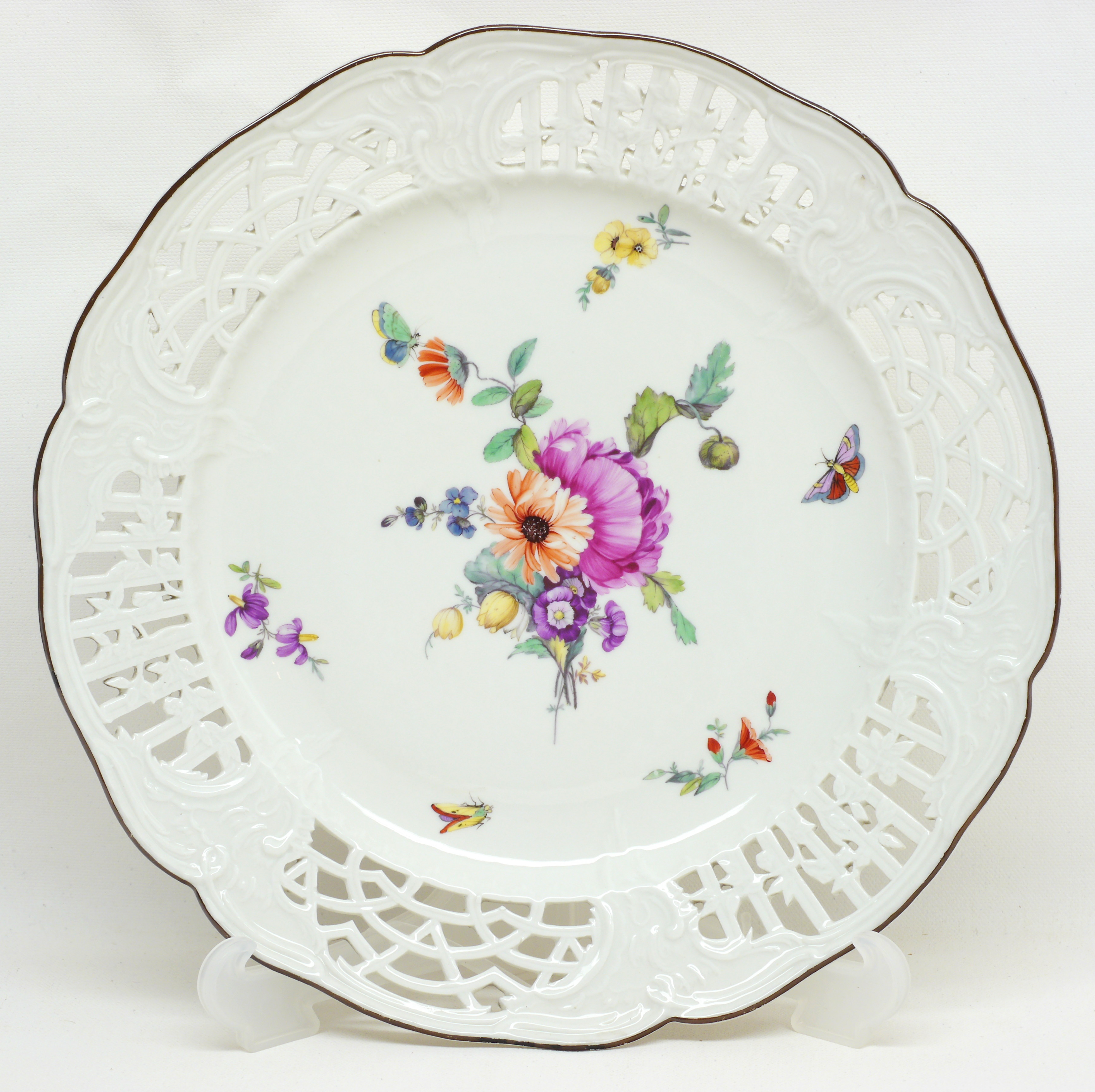 dessert plate with relief dcoration, made in 1768